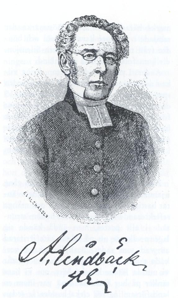 The swedish vicar and serial killer Anders Lindbäck